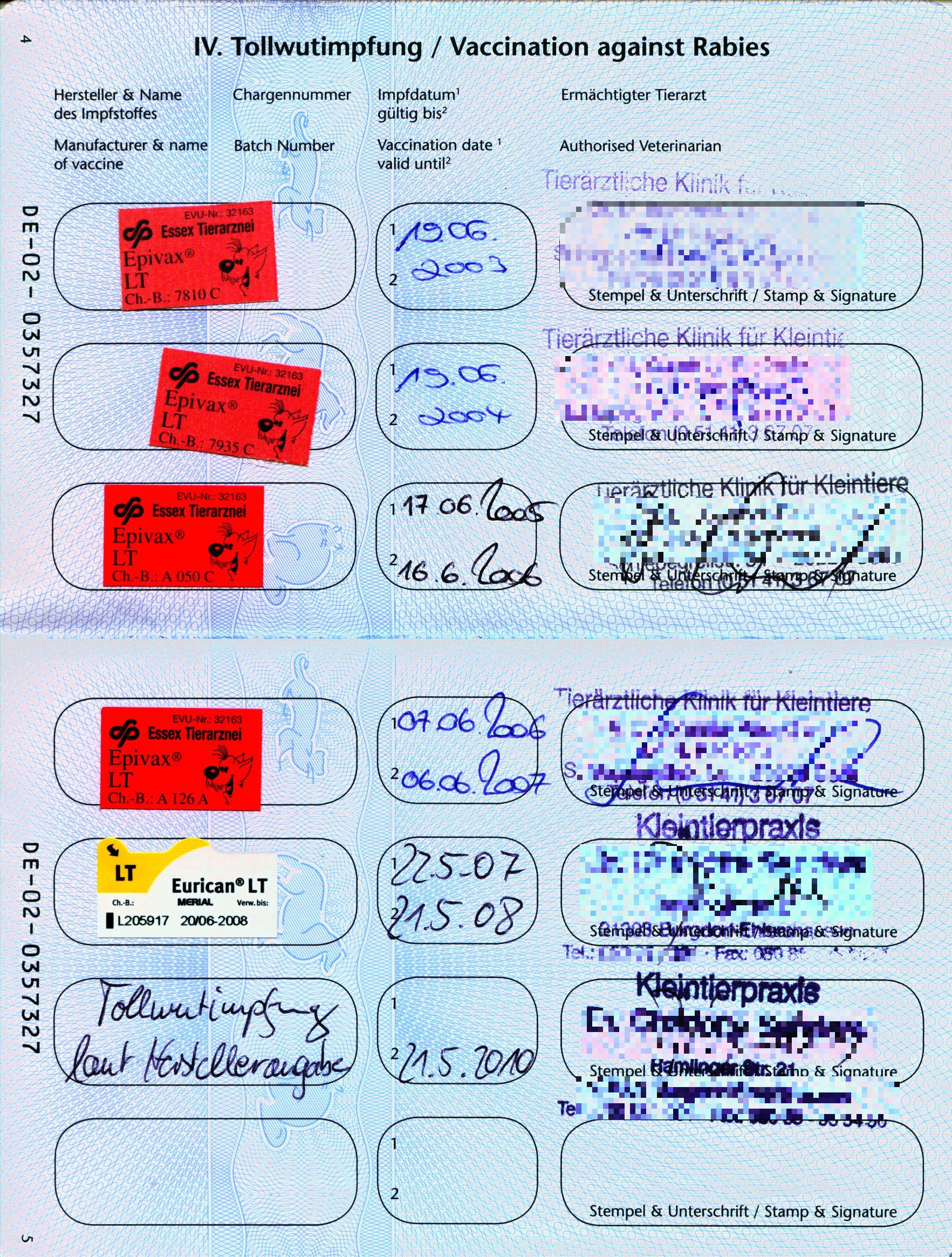 EU pet passport with rabies vaccinations - EU-Heimtierausweis mit Tollwutimpfungen